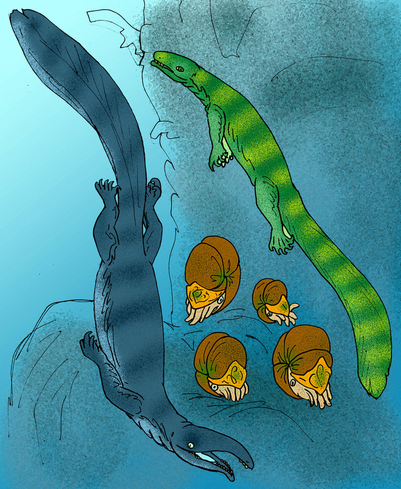 Thalattosaurus alexandrae (left) and Nectosaurus halinus (right) of Late Triassic California